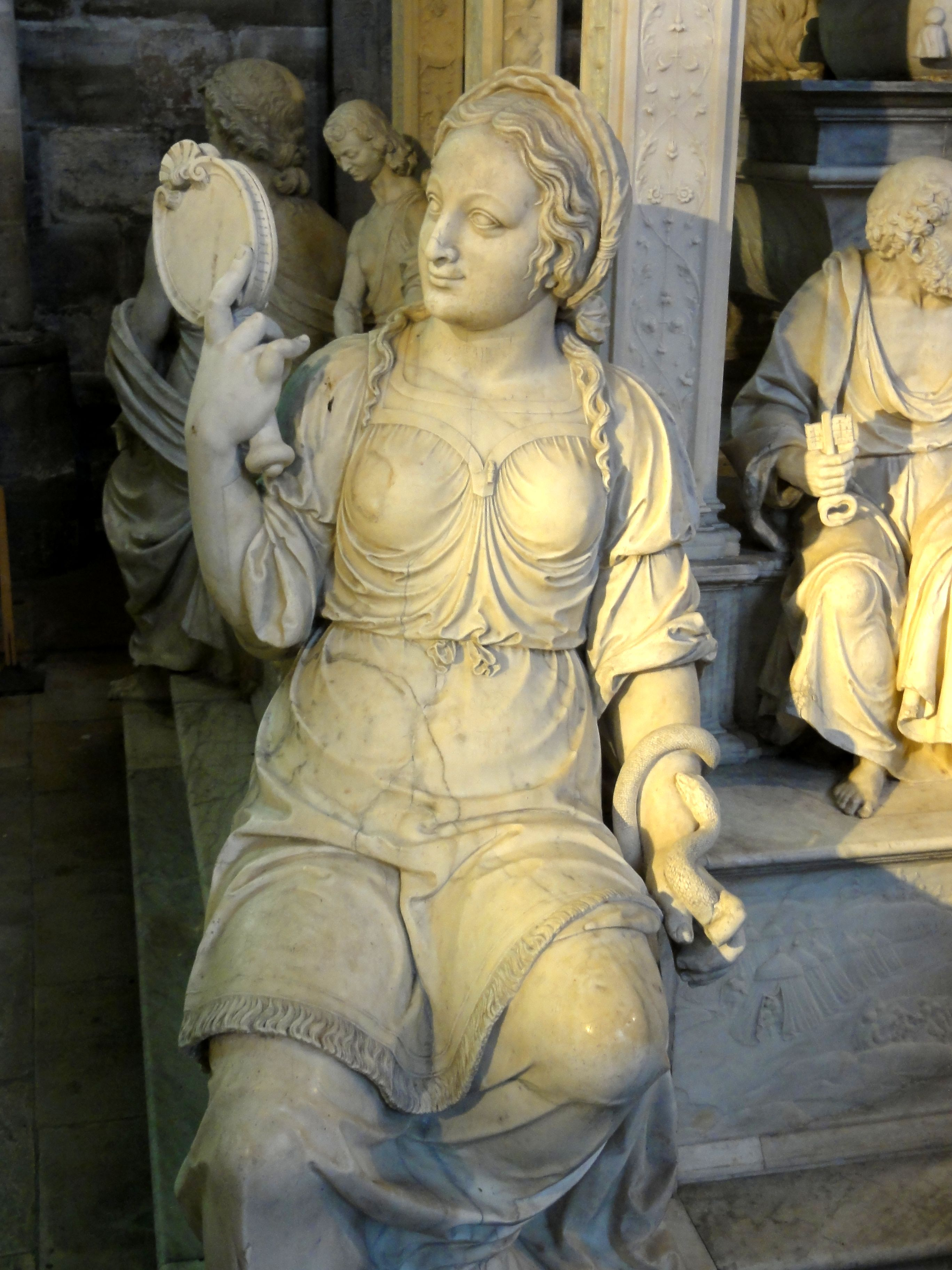 Statue représentant la Prudence. Prudentia, with her mirror and snake